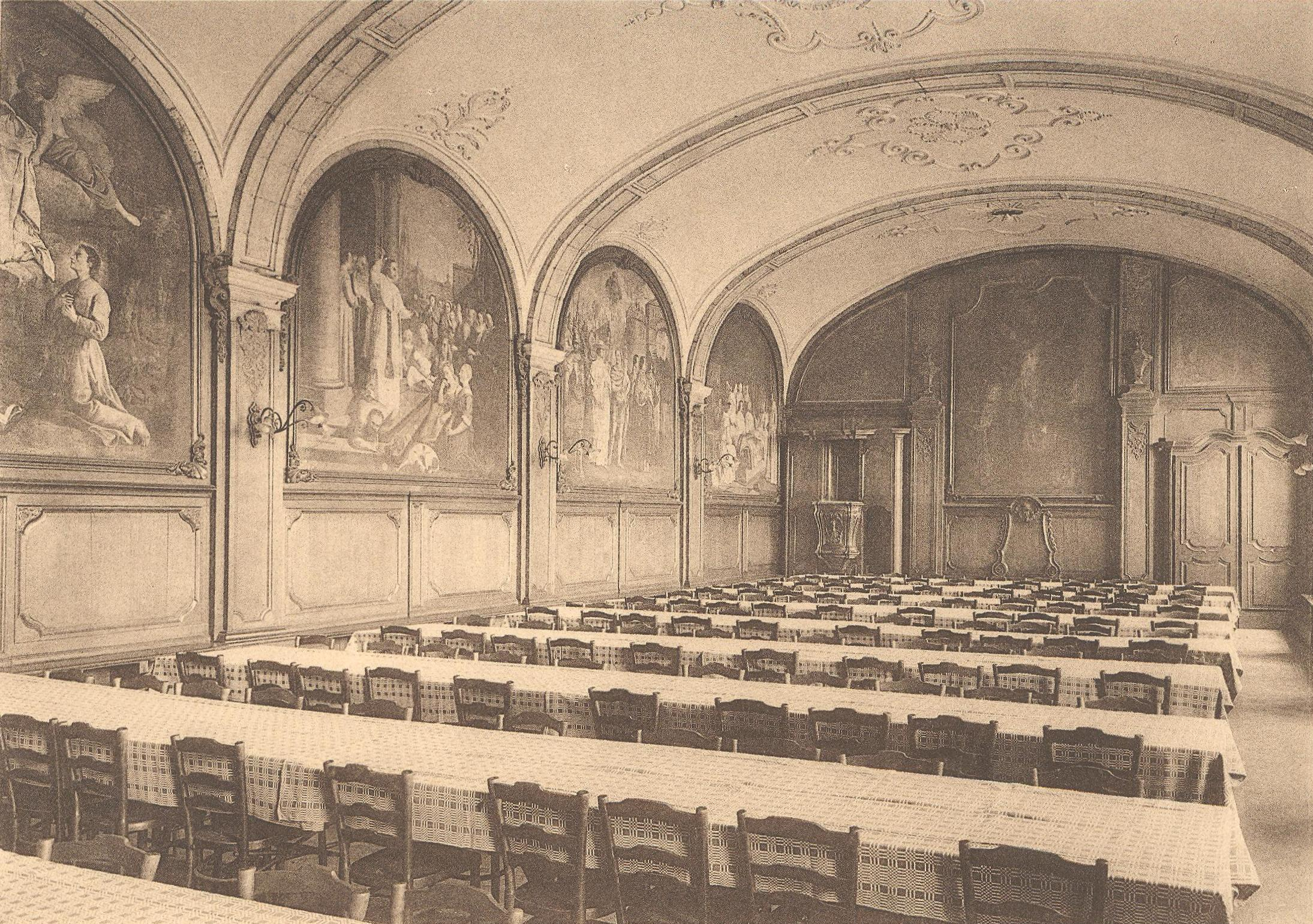 Bonne-Espérance Abbey, Vellereille-les-Brayeux (Belgium), the refectory (1738).